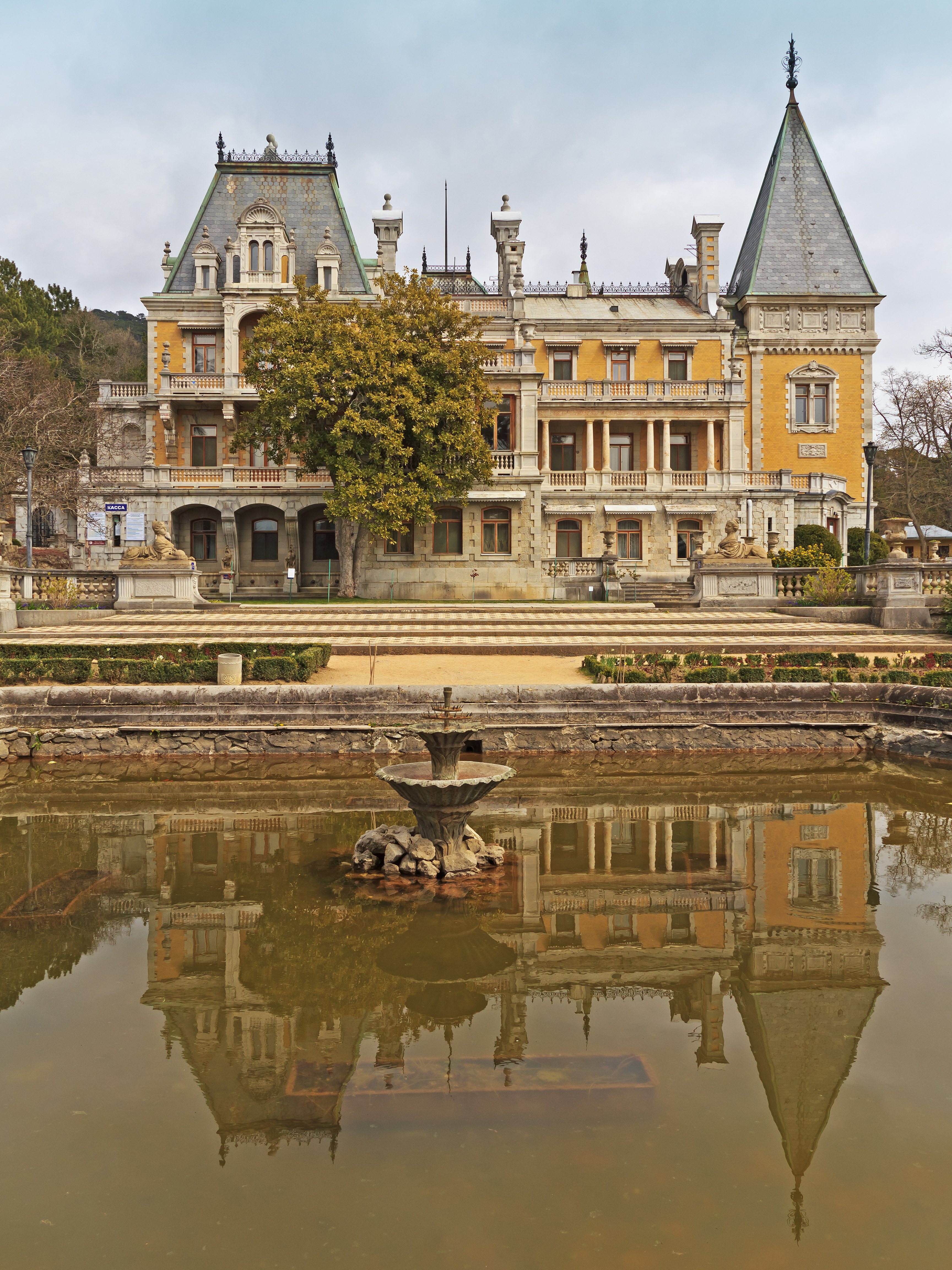 The Massandra Palace near Yalta, Crimean Peninsula.